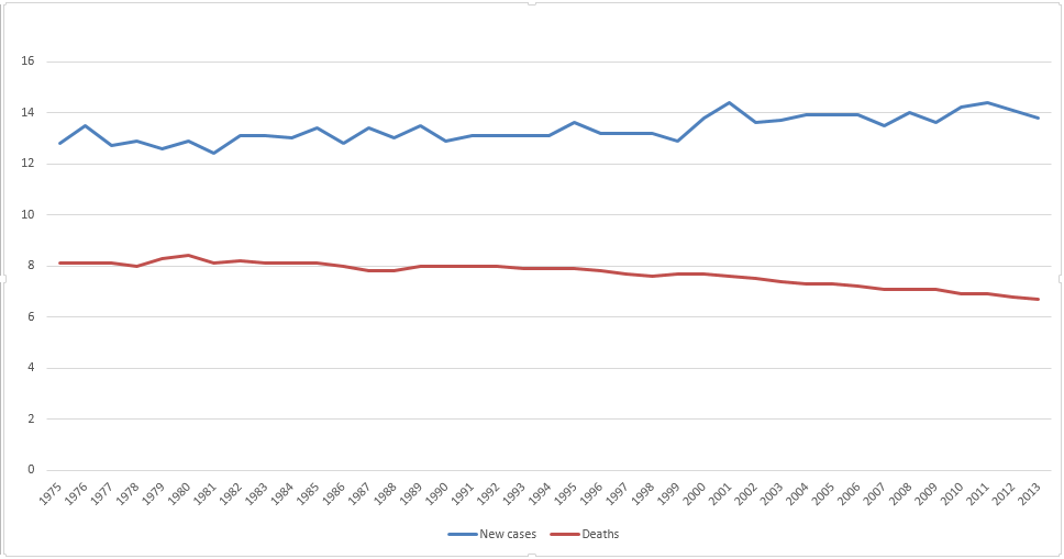 Evolution of number of new leukemia cases and deaths per 100,000 people in the United States for the period 1975-2013. Age-Adjusted[1]